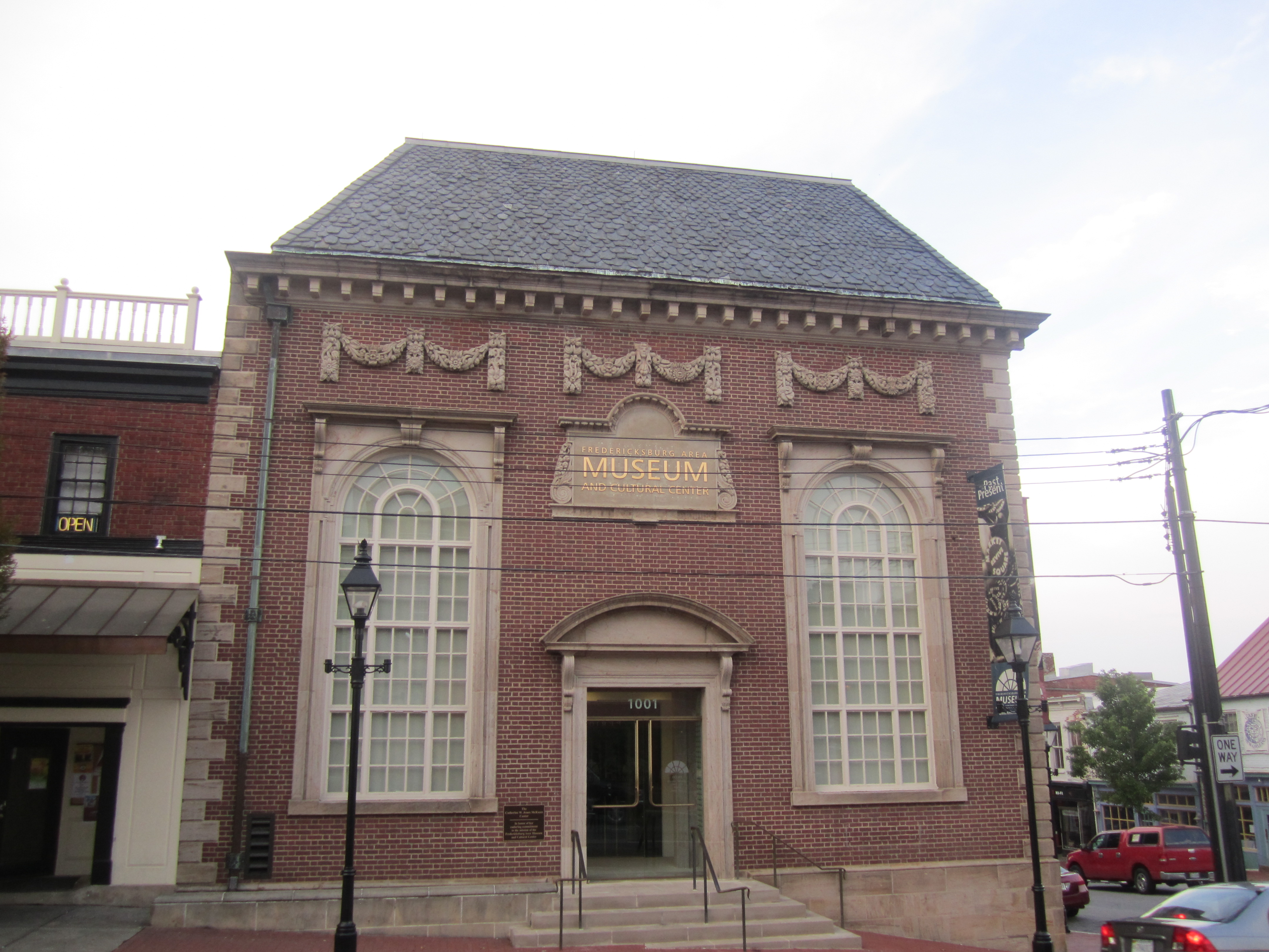 I took photo with Canon camera in downtown Fredericksburg, VA, of the Fredericksburg Museum.